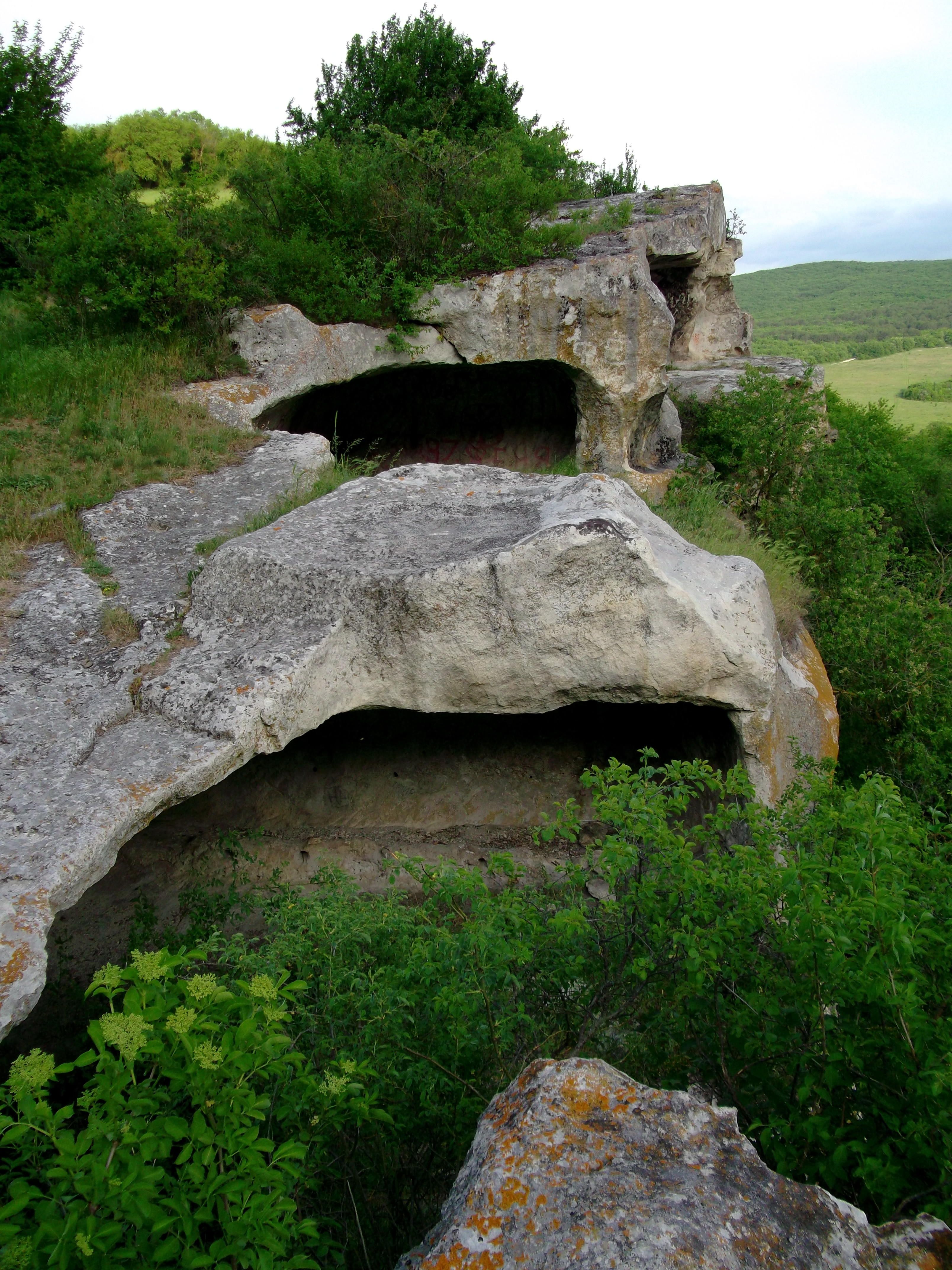 Bakla (the cuesta with the ancient cave town above the village of Skalistoye between the cities of Simferopol and Bakhchysarai in the Republic of Crimea, Ukraine)